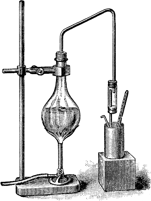 Drawing of an experiment to measure the latent heat of vaporization as steam condenses to water.